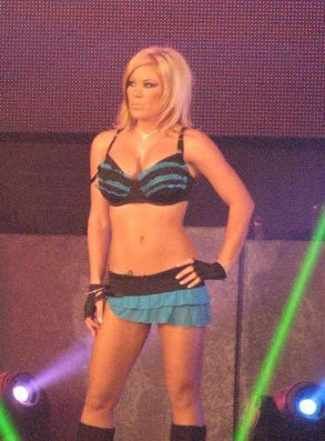 Madison Rayne during an iMPACT! taping.